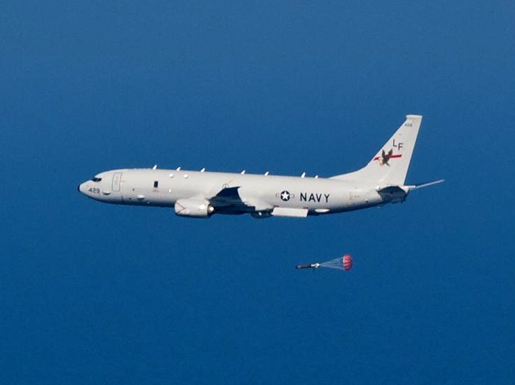 A U.S. Navy Boeing P-8A Poseidon (BuNo 168429) from Patrol Squadron VP-16 dropping an anti-submarine torpedo Mark 46.